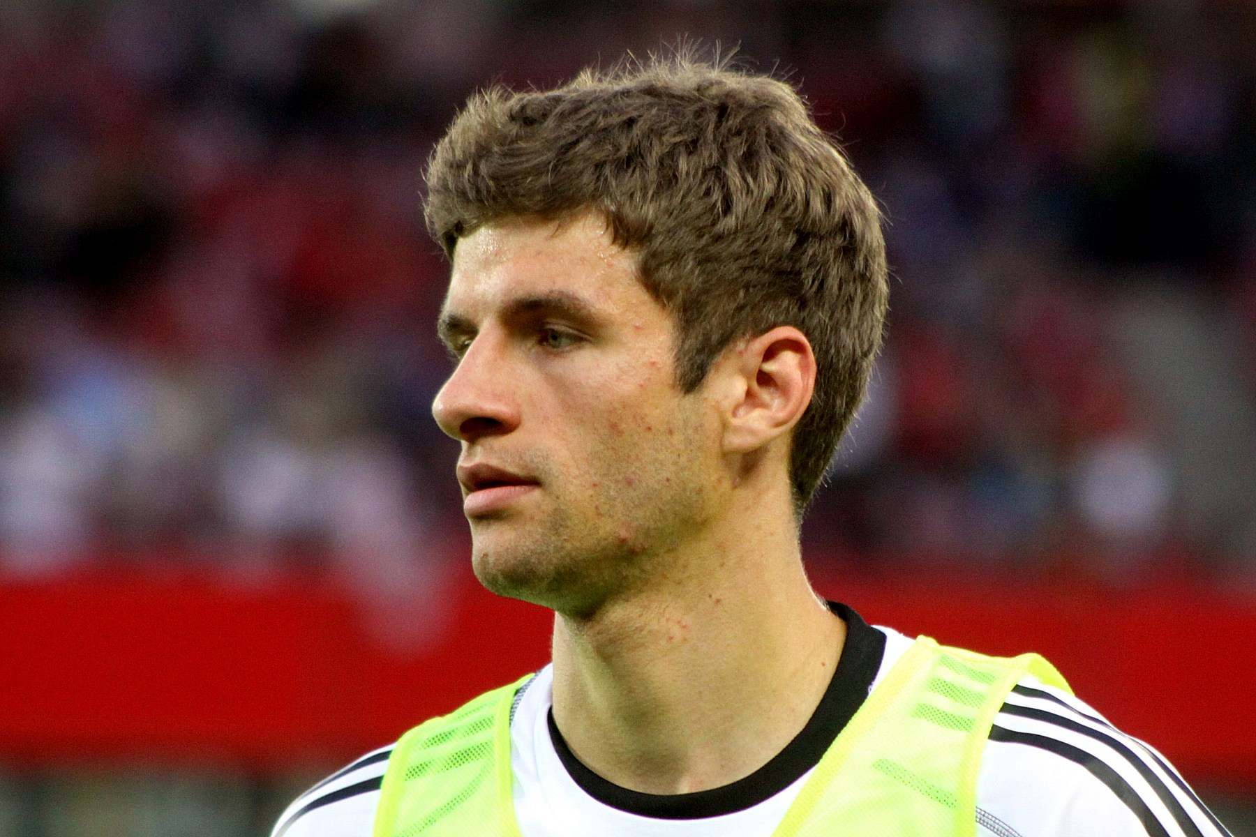 Thomas Müller (FC Bayern Munich), german national football team